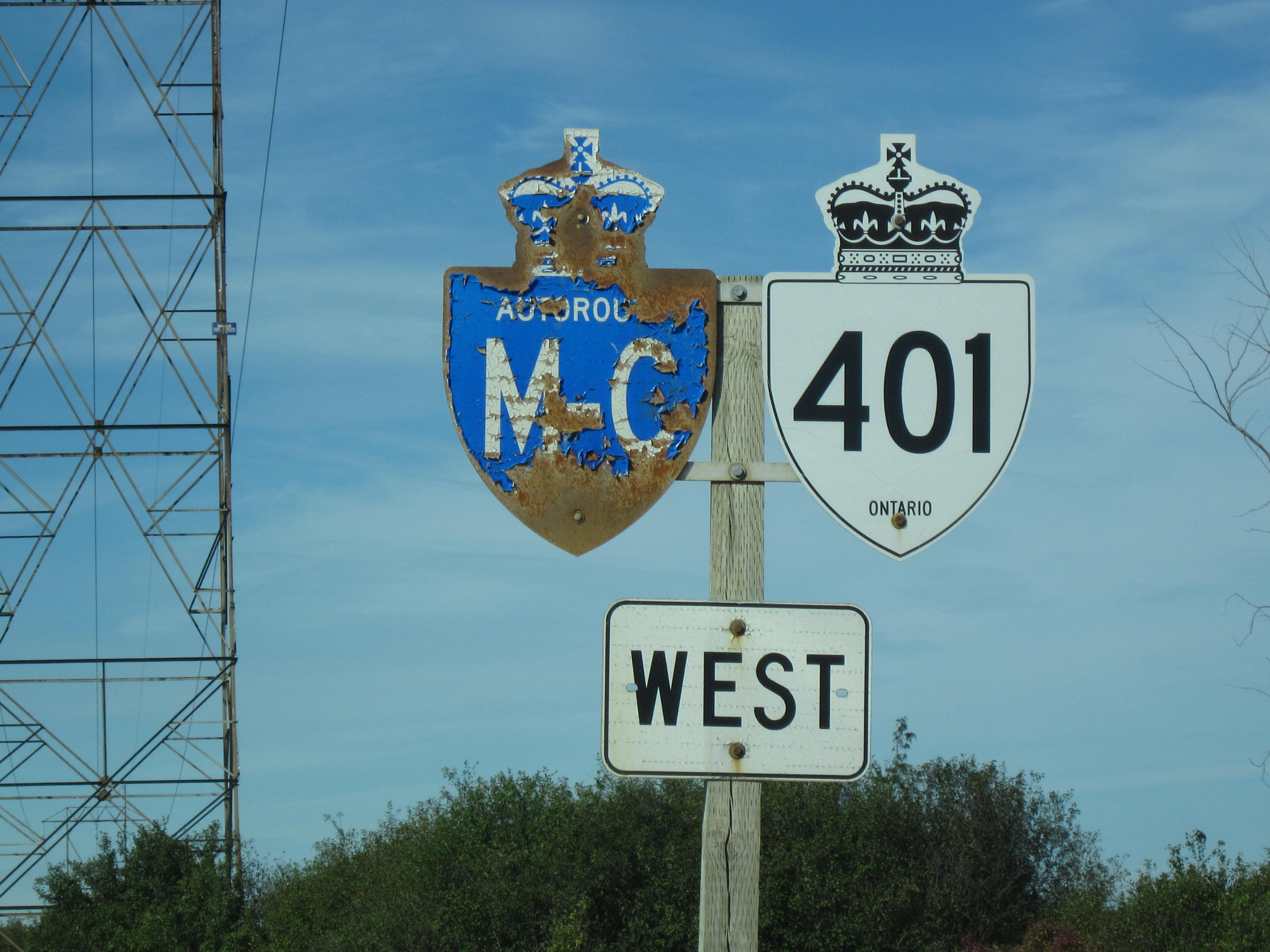 King's Highway 401 - Ontario